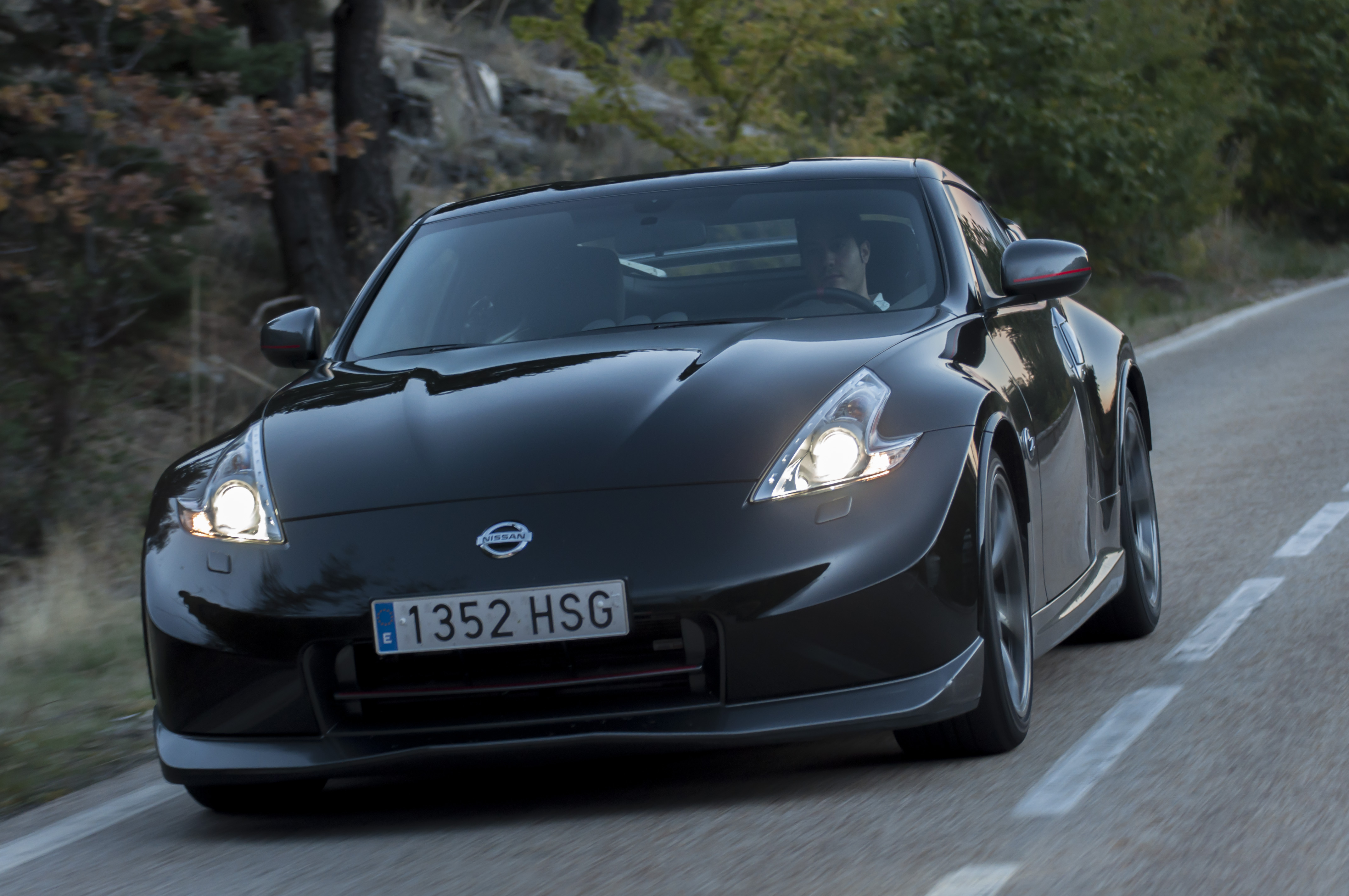 If you want to use this image feel free to do it but please give credit to me and link to this test-drive